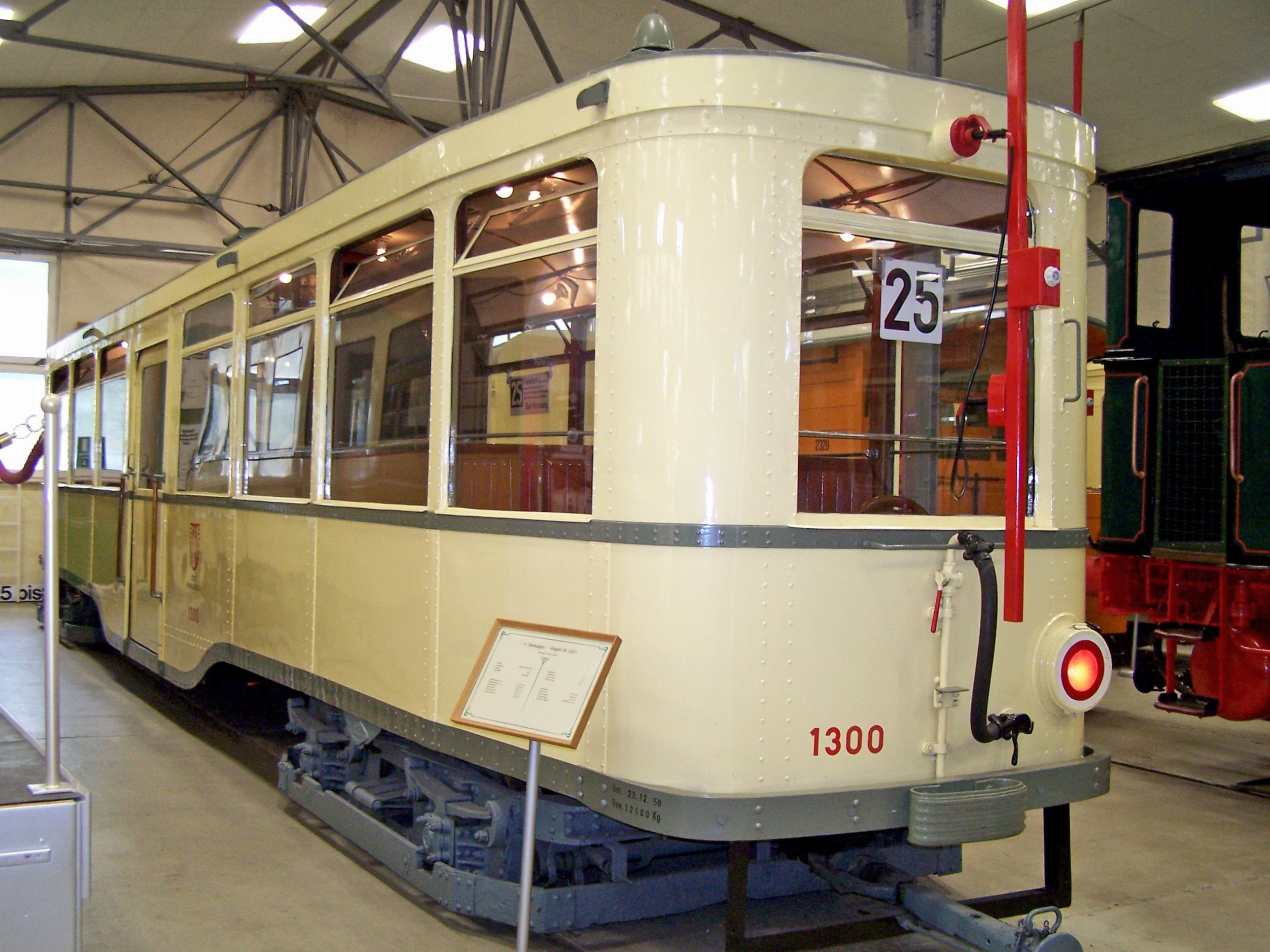 low-floor trailer 1300 in the Frankfurt on Main Transport Museum in Frankfurt am Main--Schwanheim